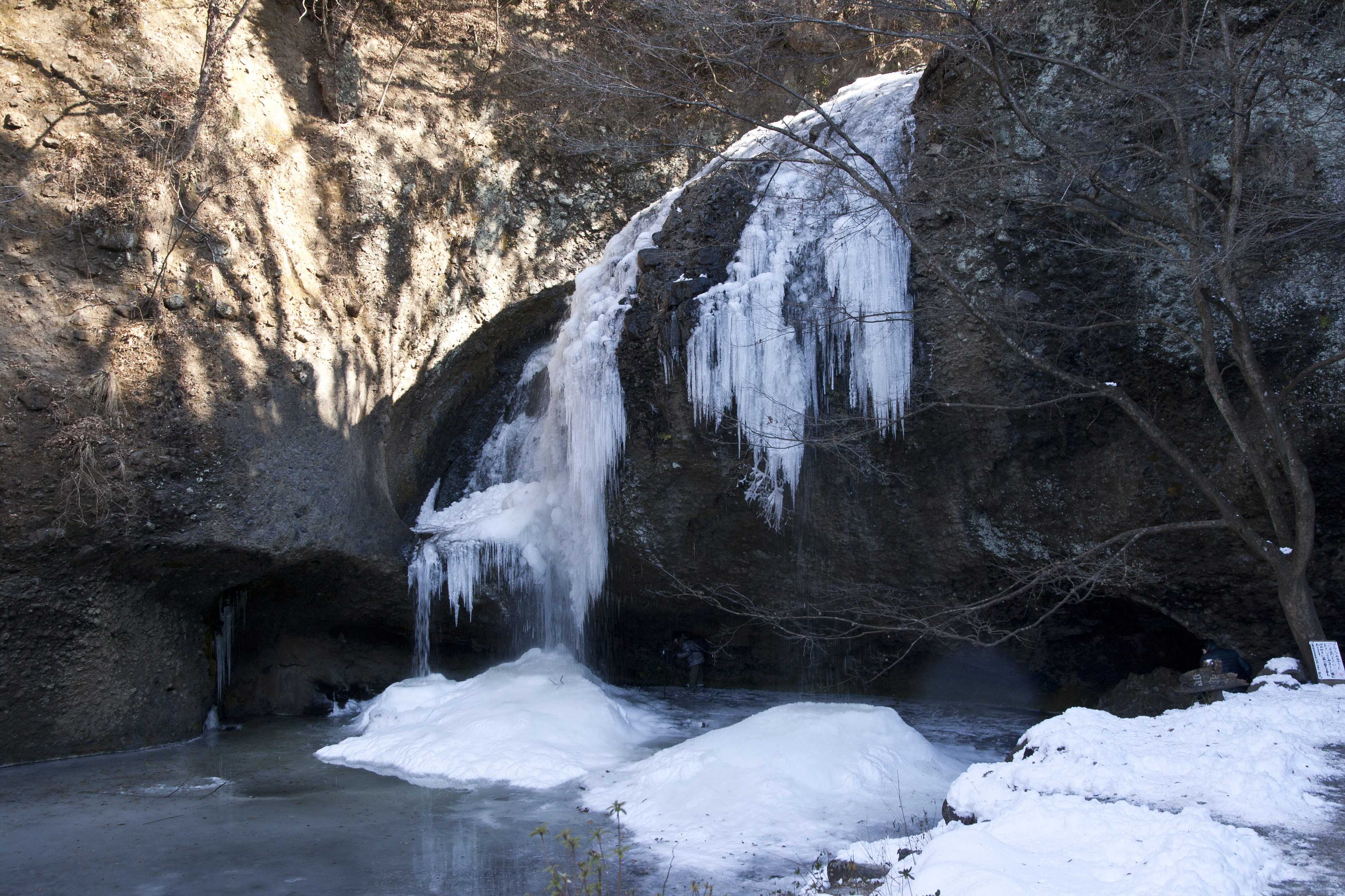 Tsukimachi Falls (Tsukimachi-no-taki 月待の滝) in Daigo Town, Ibaraki Pref., Japan